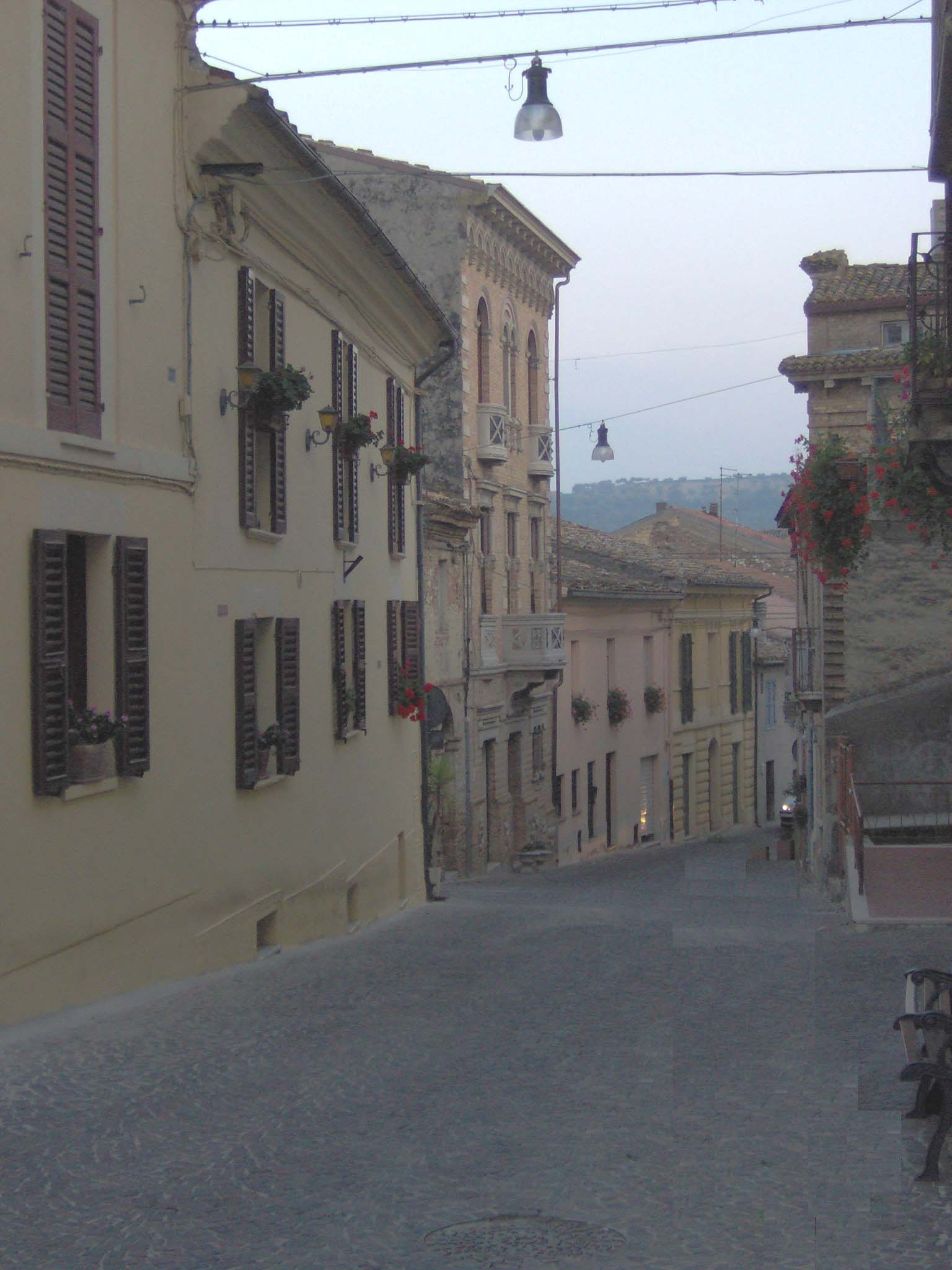 The Centre of the town. I am the author and the sources are my camera and my Pc.